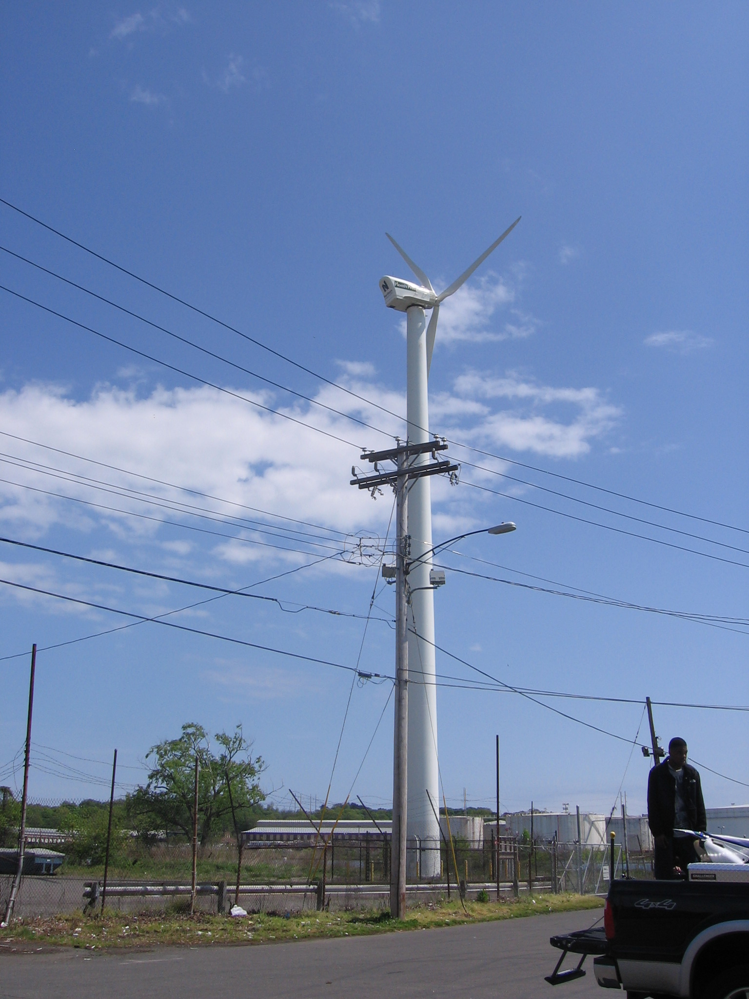 Wind turbine at the foot of James Street in the Fair Haven section of New Haven, Connecticut, USA. View looking northeast.